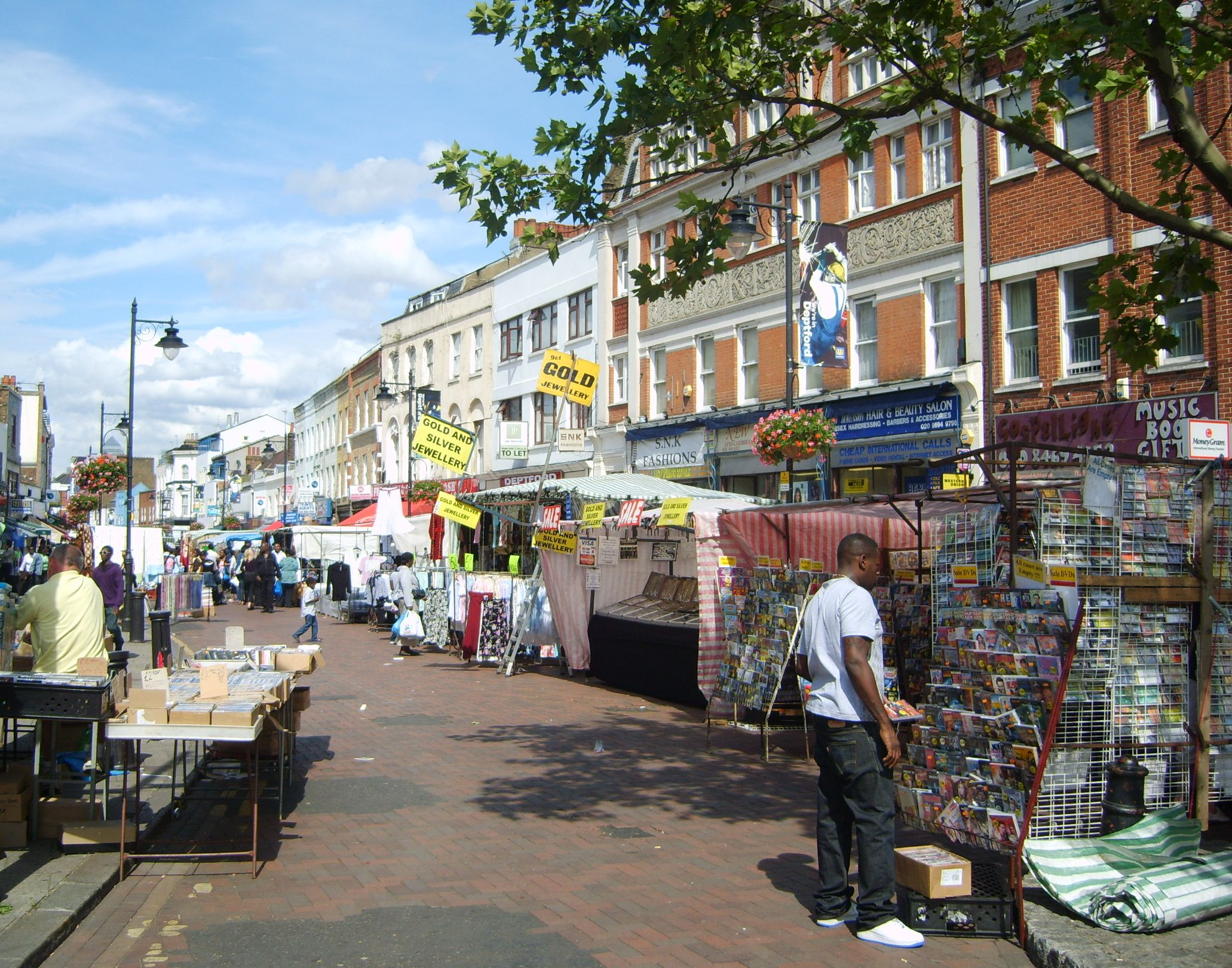 Deptford Market looking north